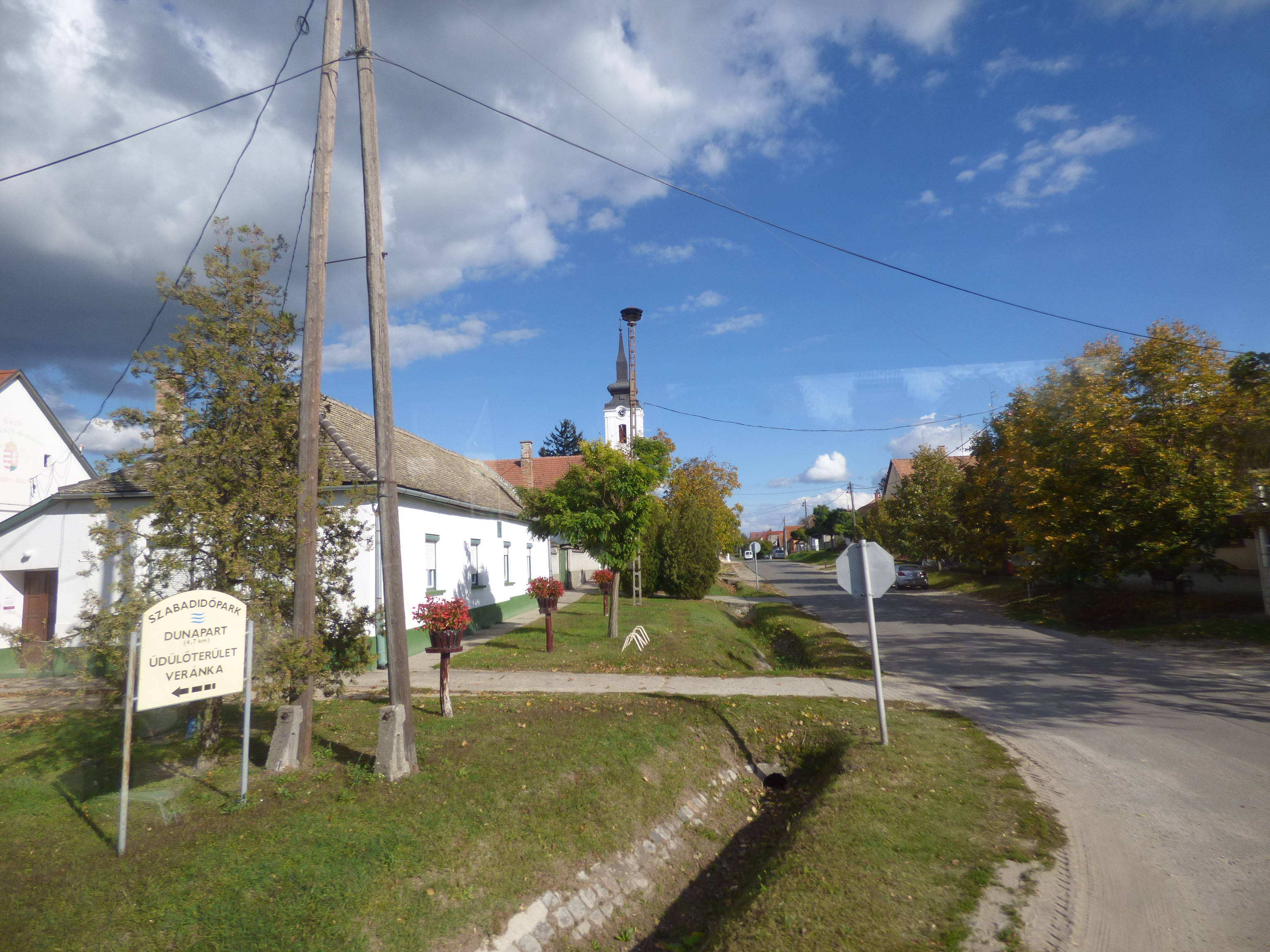 Érsekcsanád, utcakép a református templommal